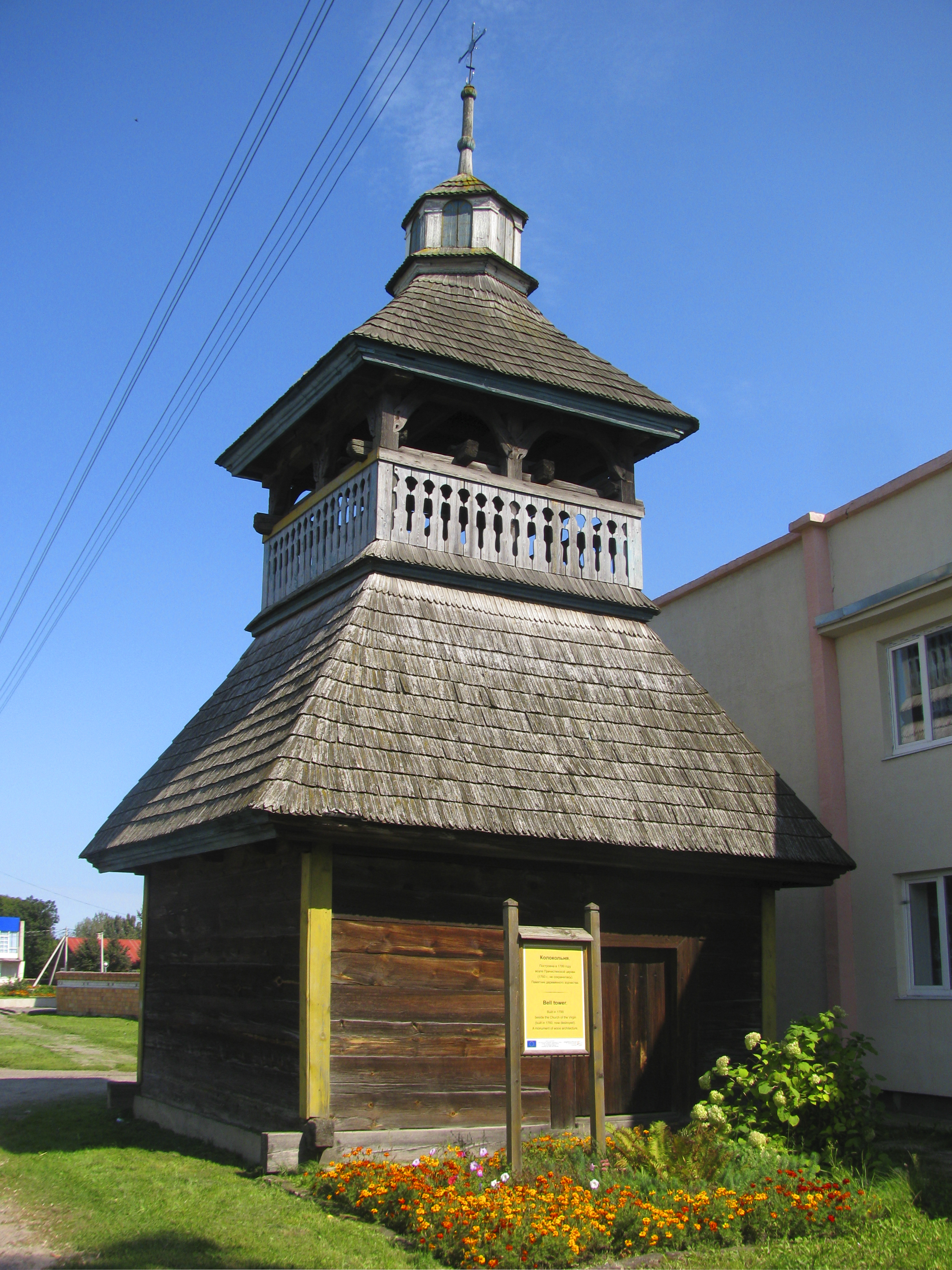 Беларуская (тарашкевіца): Званіца. г. п. Шарашова This is a photo of Belarusian heritage monument. Reference number: 112Г000655 ( WLM)